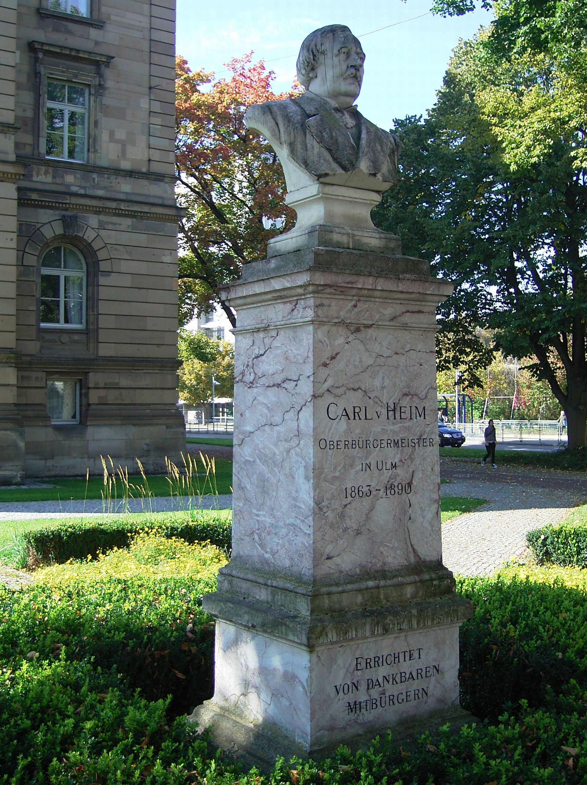 Carl von Heim (Karl Heim), 1820-1895, Mayor of Ulm/Germany 1863-1890. Monument in Ulm